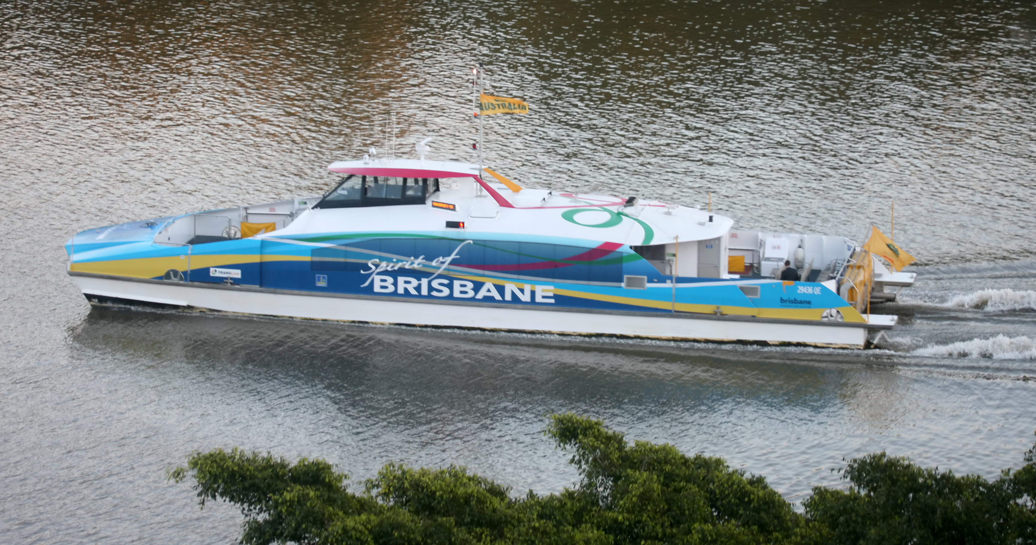 Brisbane ferry